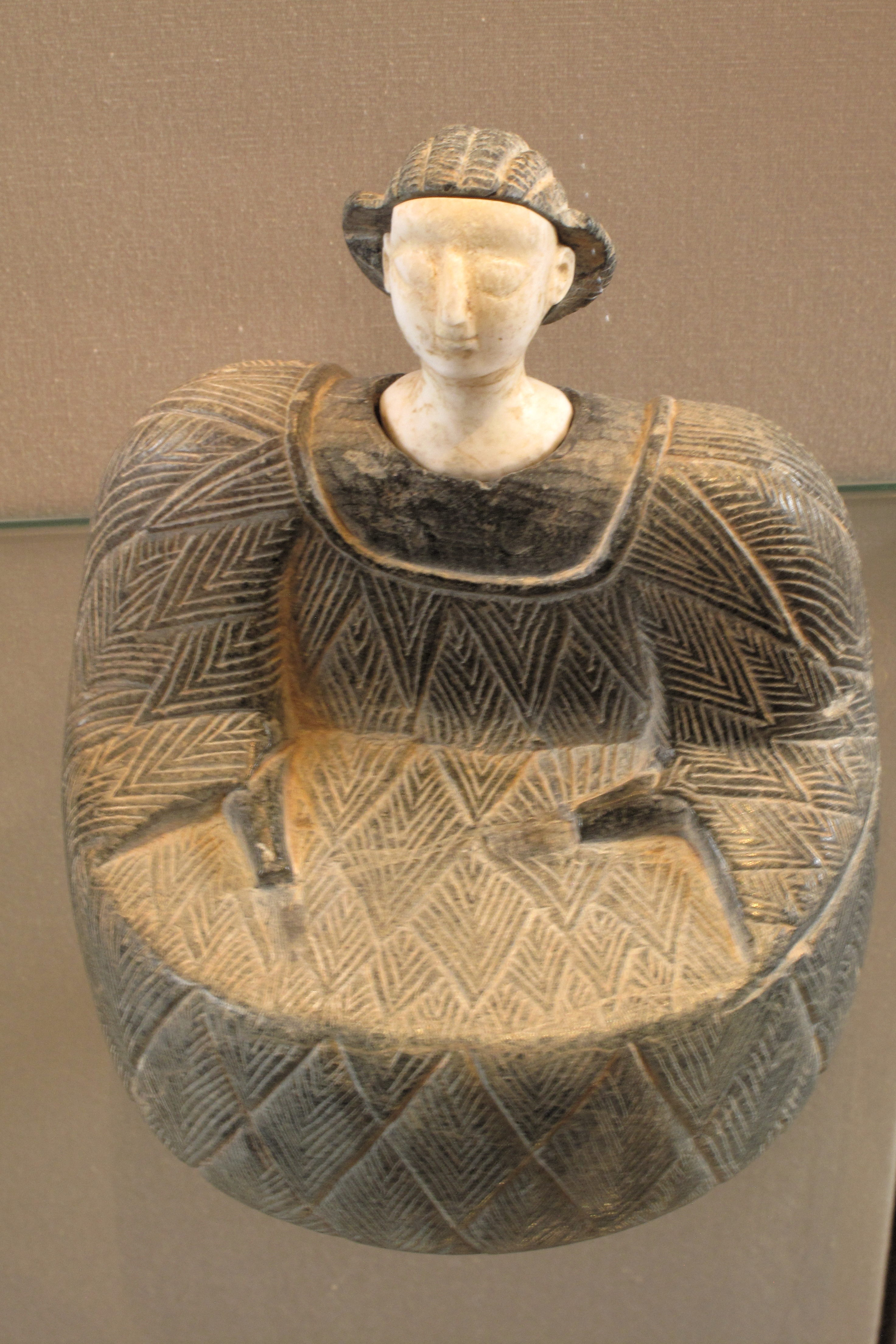 Female statuette bearing the kaunakes ("crinoline" dress). Chlorite and limestone, Bactria, beginning of the 2nd millennium BC.